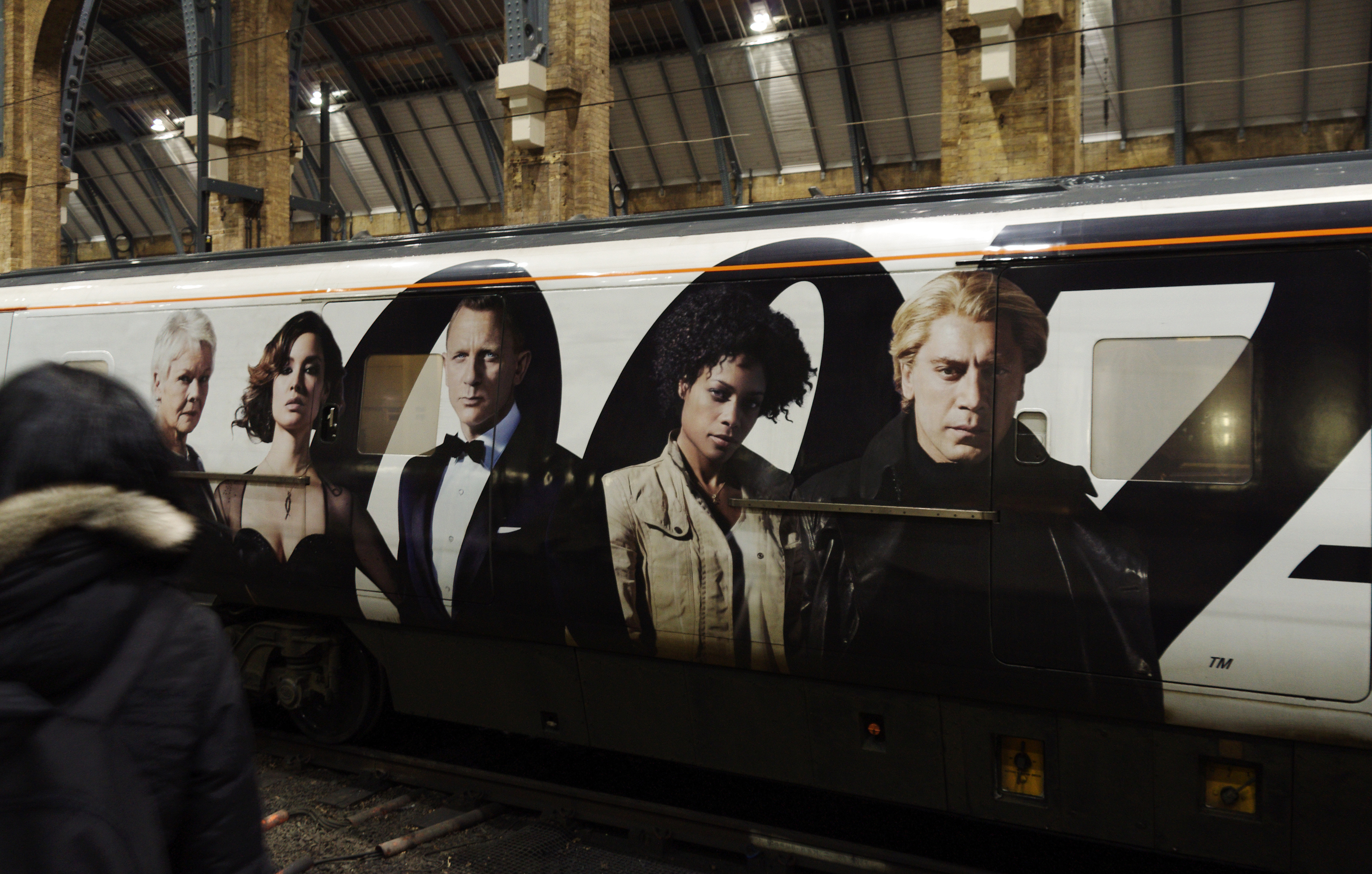 East Coast Mk4 DVT 82231 "Skyfall" stands resplendent in its James Bond livery at King's Cross railway station.